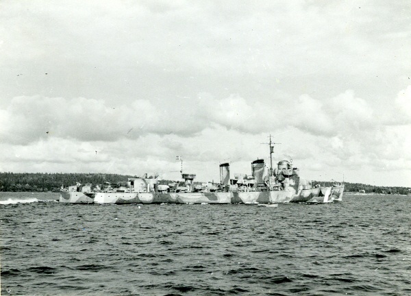 The Swedish destroyer HMS Malmö.